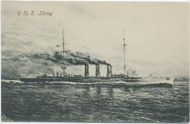 SMS Elbing